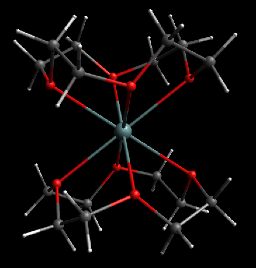 A Ge(II) crown ether sandwich complex, from a crystal structure reported in